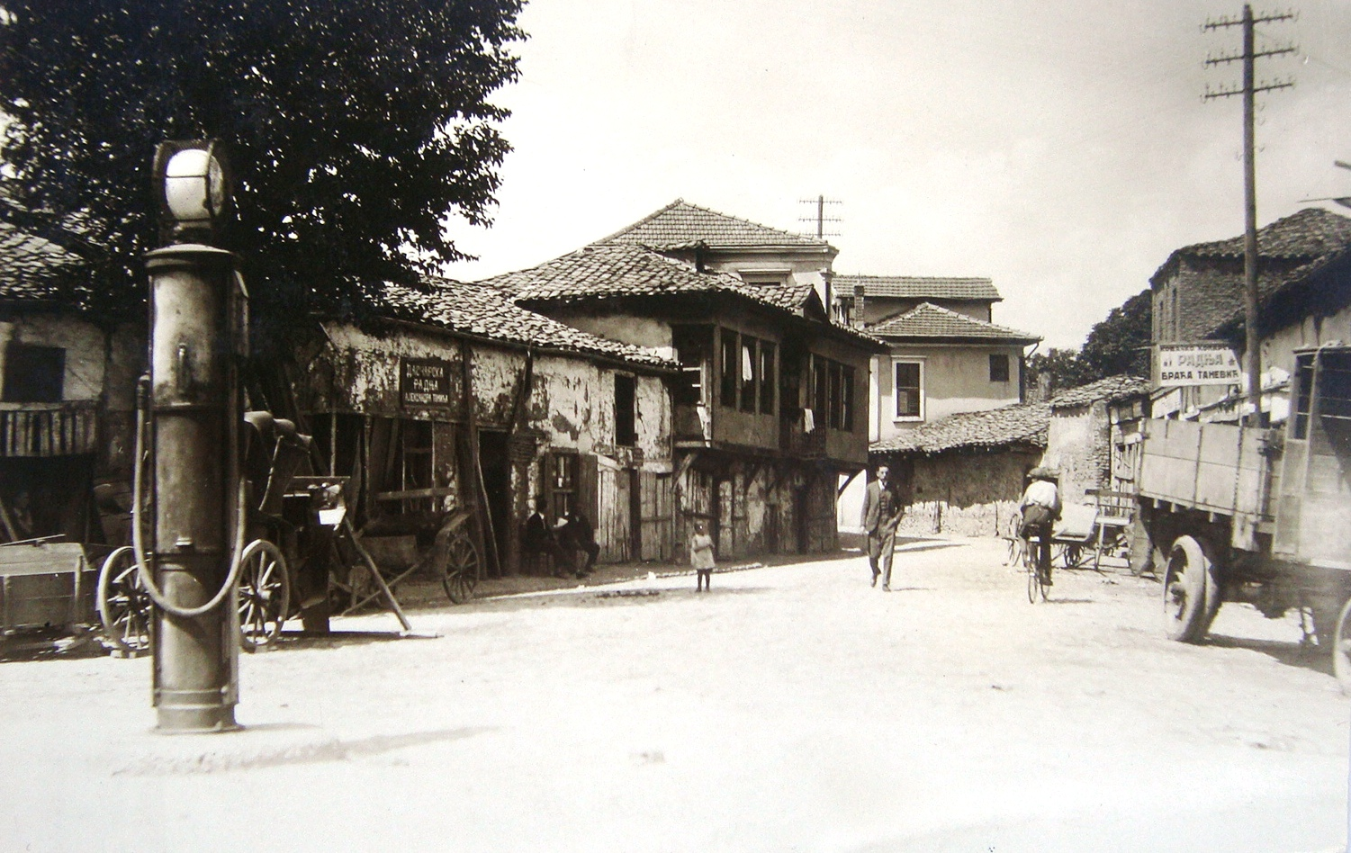 Historical images of Skopje: Part of Skopje. This media file is produced by Wikipedian in Residence in Category:Wikipedian in Residence at DARM in 2016.